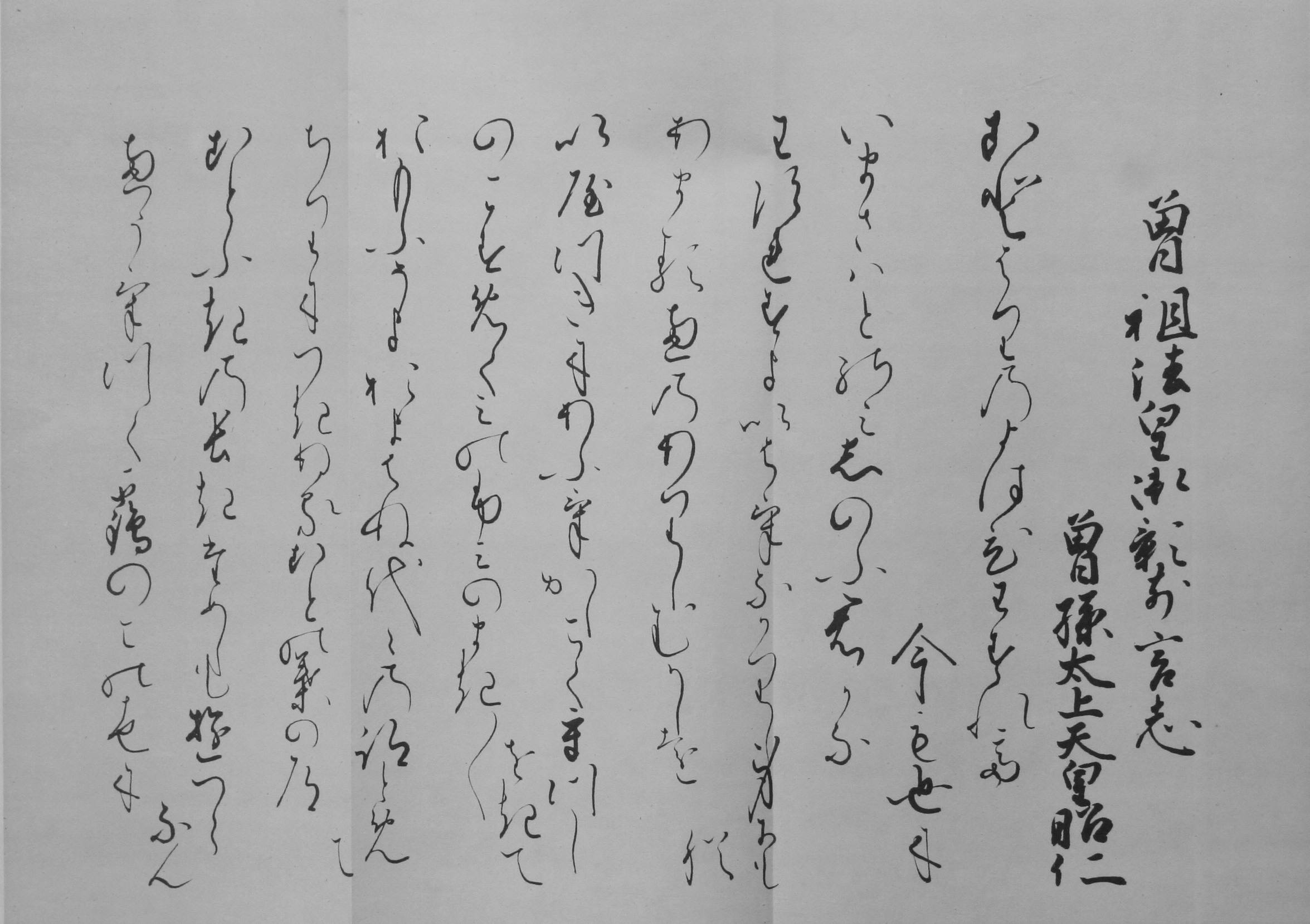 Poem on kaishi paper by Emperor Sakuramachi dedicated to his Great Grandfather: Emperor Reigen ink on paper